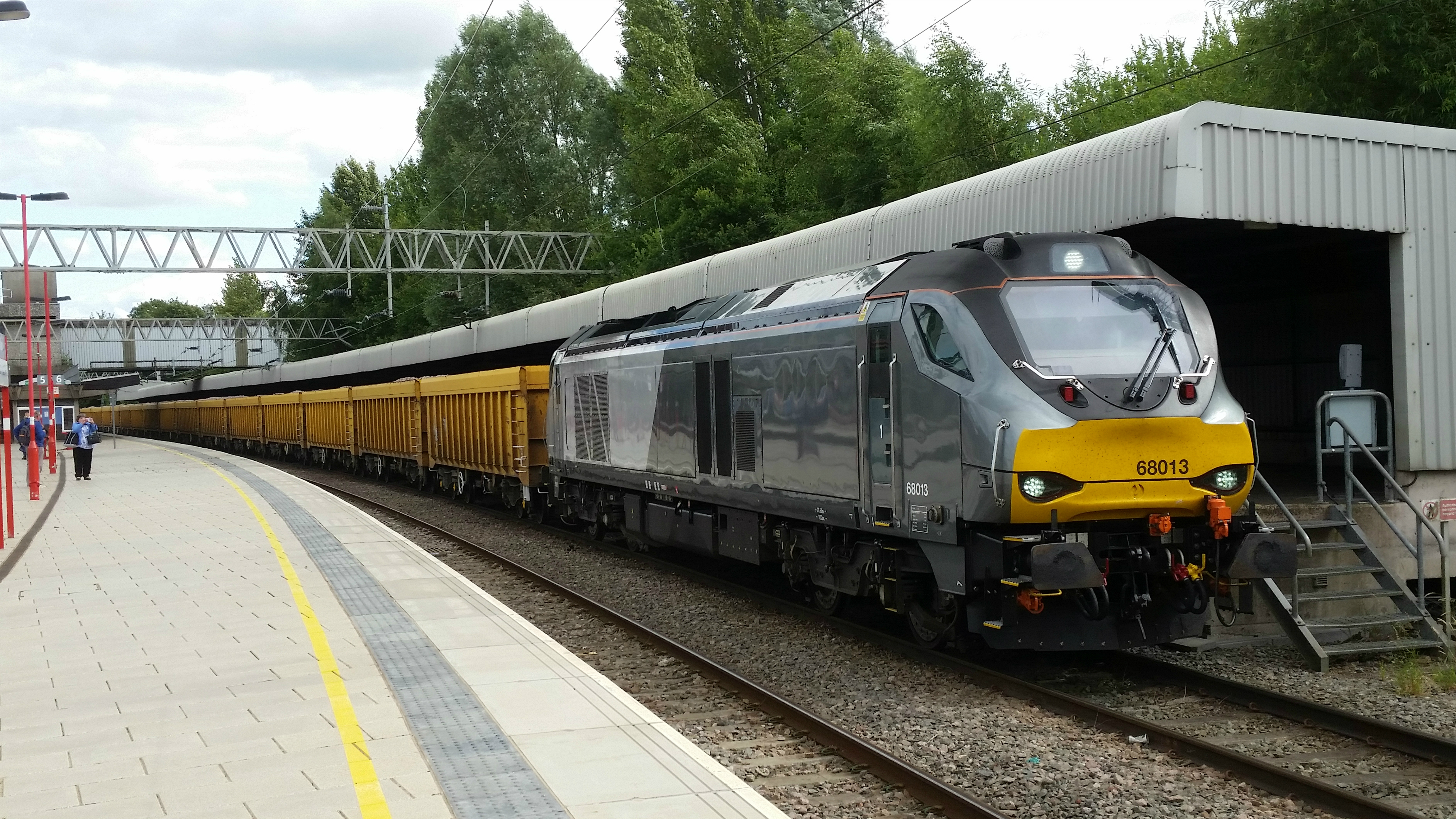 A Direct Rail Services Class 68, numbered 68013, sits in the former Royal Mail postal platform at Stafford. This is working a weekday freight working to and from Mountsorrel quarry.